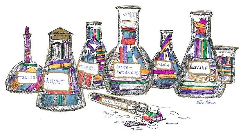 EESi 2017. aasta kevadpäevade logo.